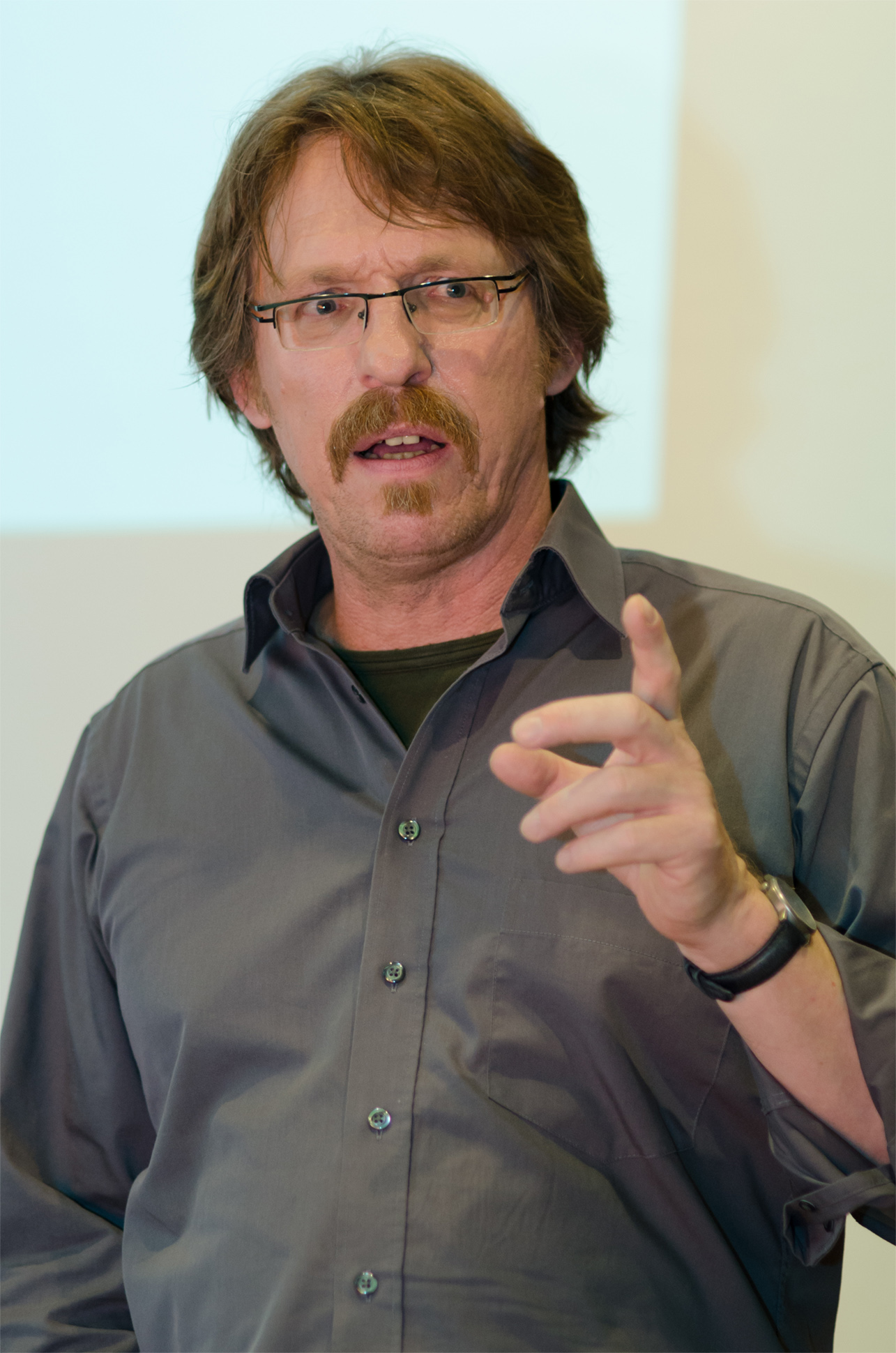 Ulrich Dolata holding a speach at the TU Dortmund University